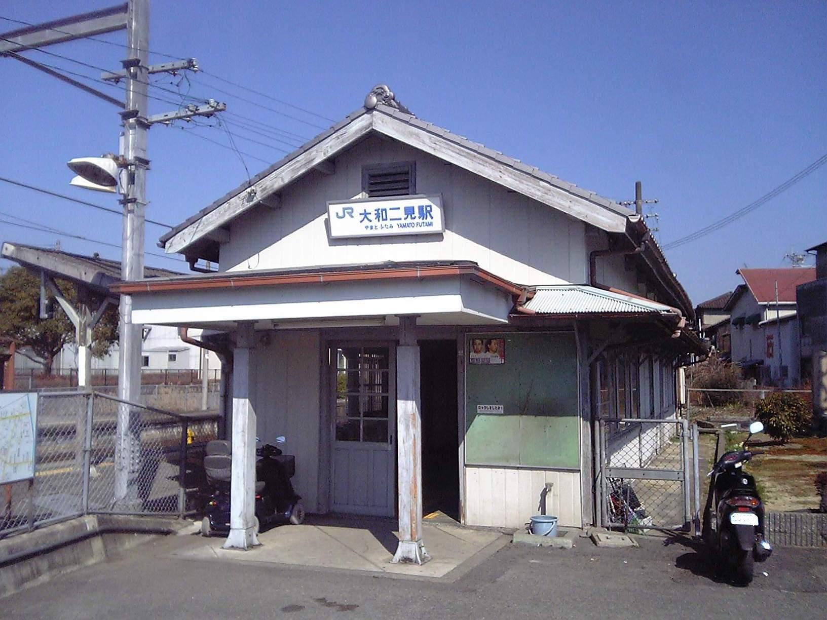 Yamato-Futami Station building